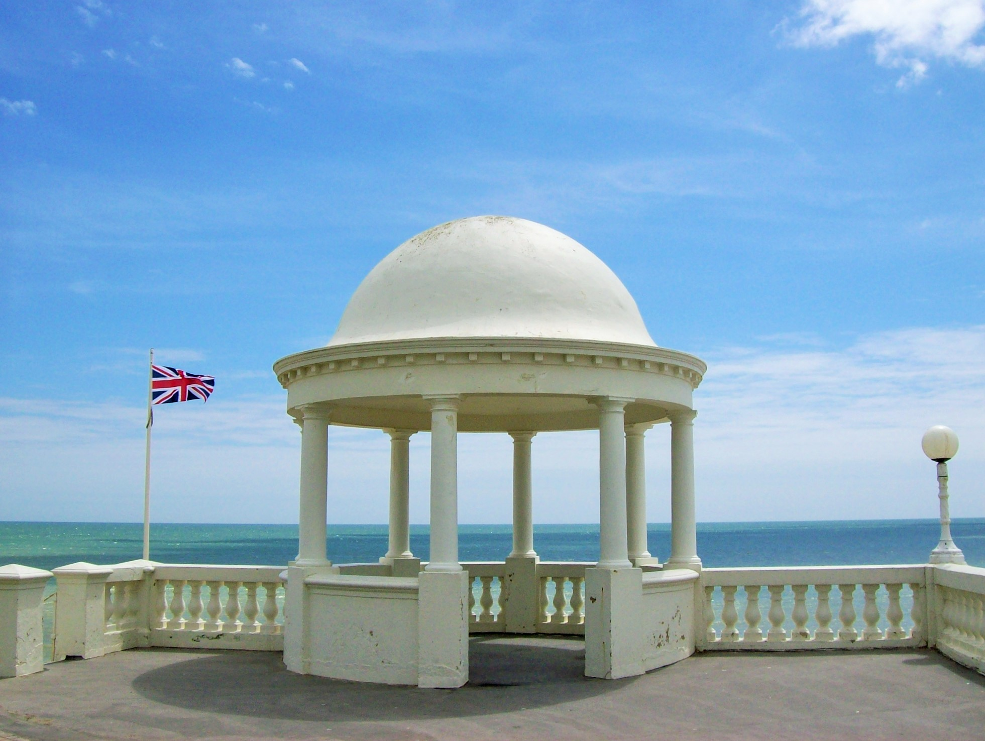 Flag and gazebo, Bexhill